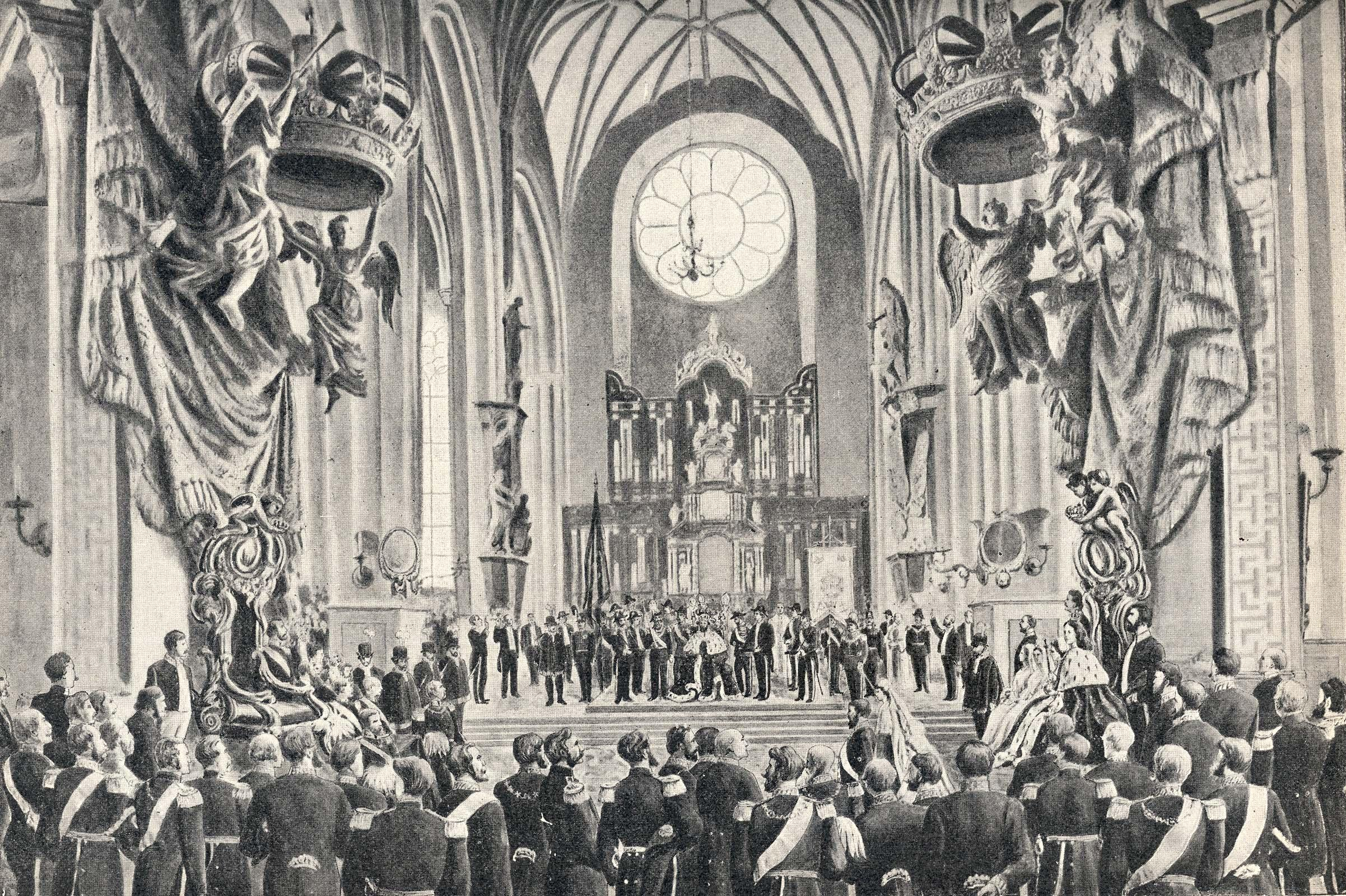 King Oscar II and Queen Sofia of Sweden and Norway at their Swedish coronation